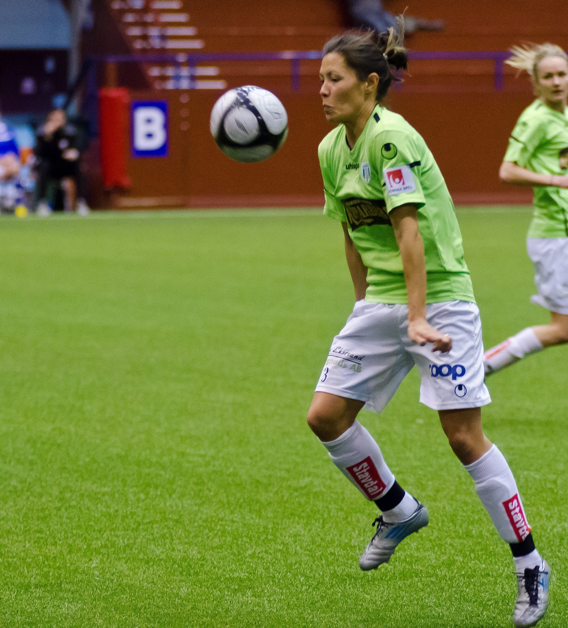 Swedish defender Jane Törnqvist playing a 2012 pre-season game for Kopparbergs/Göteborg FC.